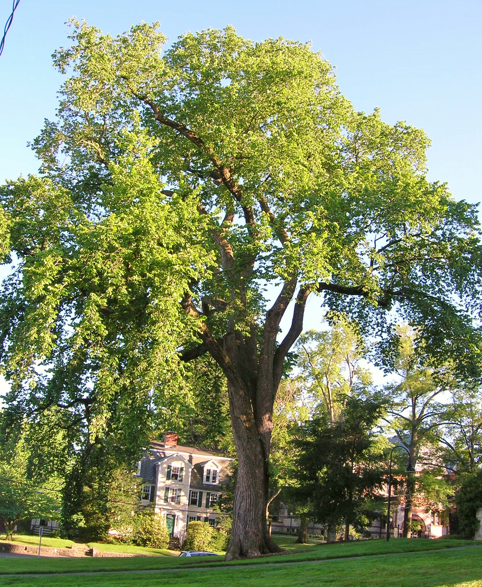 American Elm Tree at College Hall on the Smith College campus, Northampton, MA. Photo was taken in June 2012.